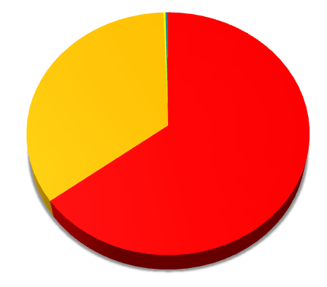 Expressed as a pie chart in the Tokyo gubernatorial election in 1971, the number of votes for each candidate. explanatory notes ■ - Ryokichi Minobe ■ - Syo Hatano ■ - Bin Akao ■ - Yoshikazu Kubo ■ - Yoshikazu Mino ■ - Wataru Shimizu ■ - Akio Oki ■ - Toshiro Suzuki ■ - Tenkai Oda ■ - Toshio Minami ■ - Muneo Makabe ■ - Taketoshi Nonogami ■ - Syoji Toba